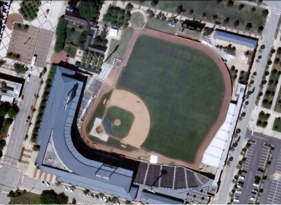 The Baseball Grounds of Jacksonville, seen from a USGS satellite. Scale of 1:1,128